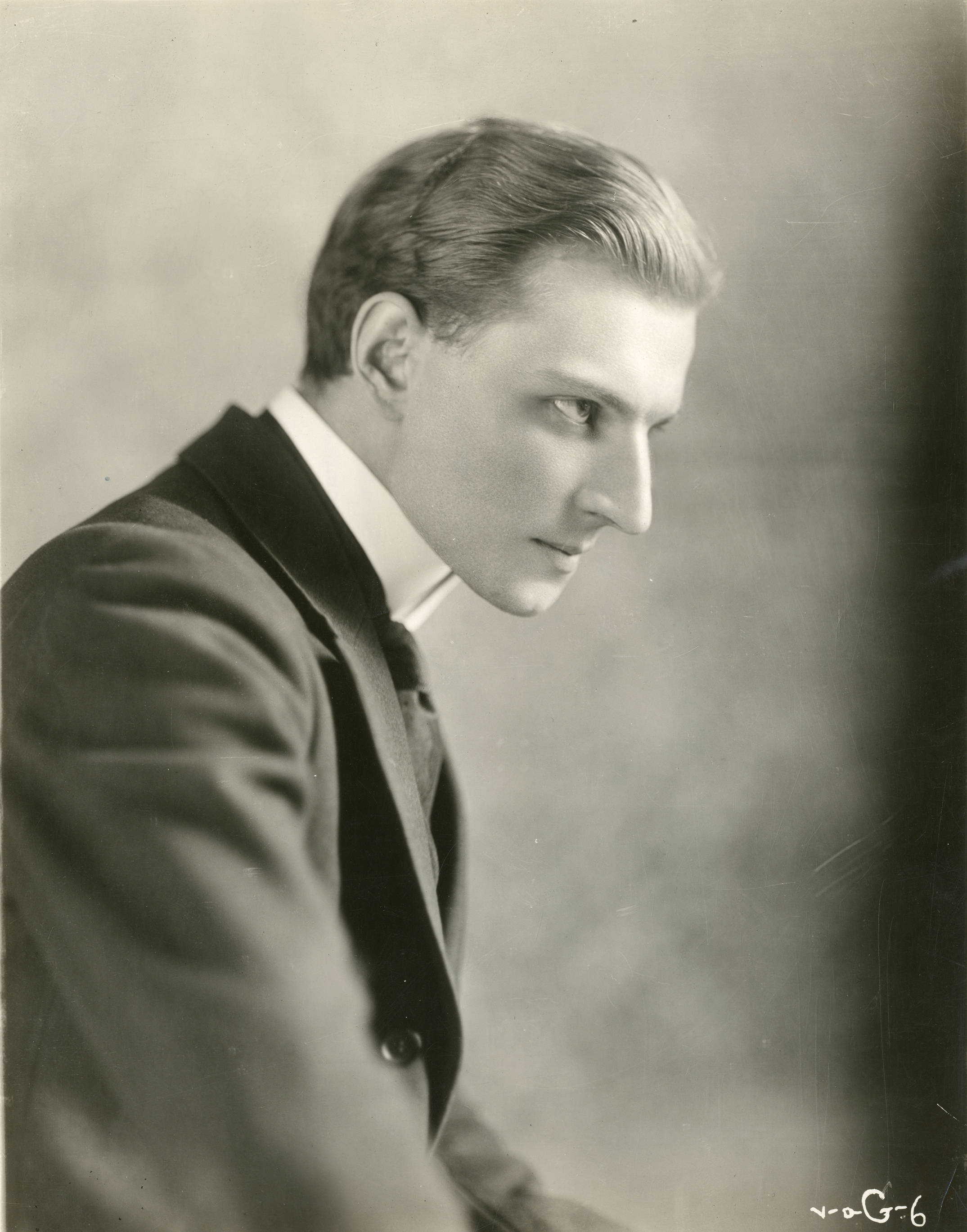 Horst Von der Goltz, silent film actor Subjects: actors